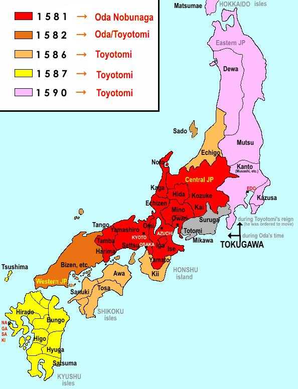 Oda nobunaga toyotomi hideyoshi map of conquest